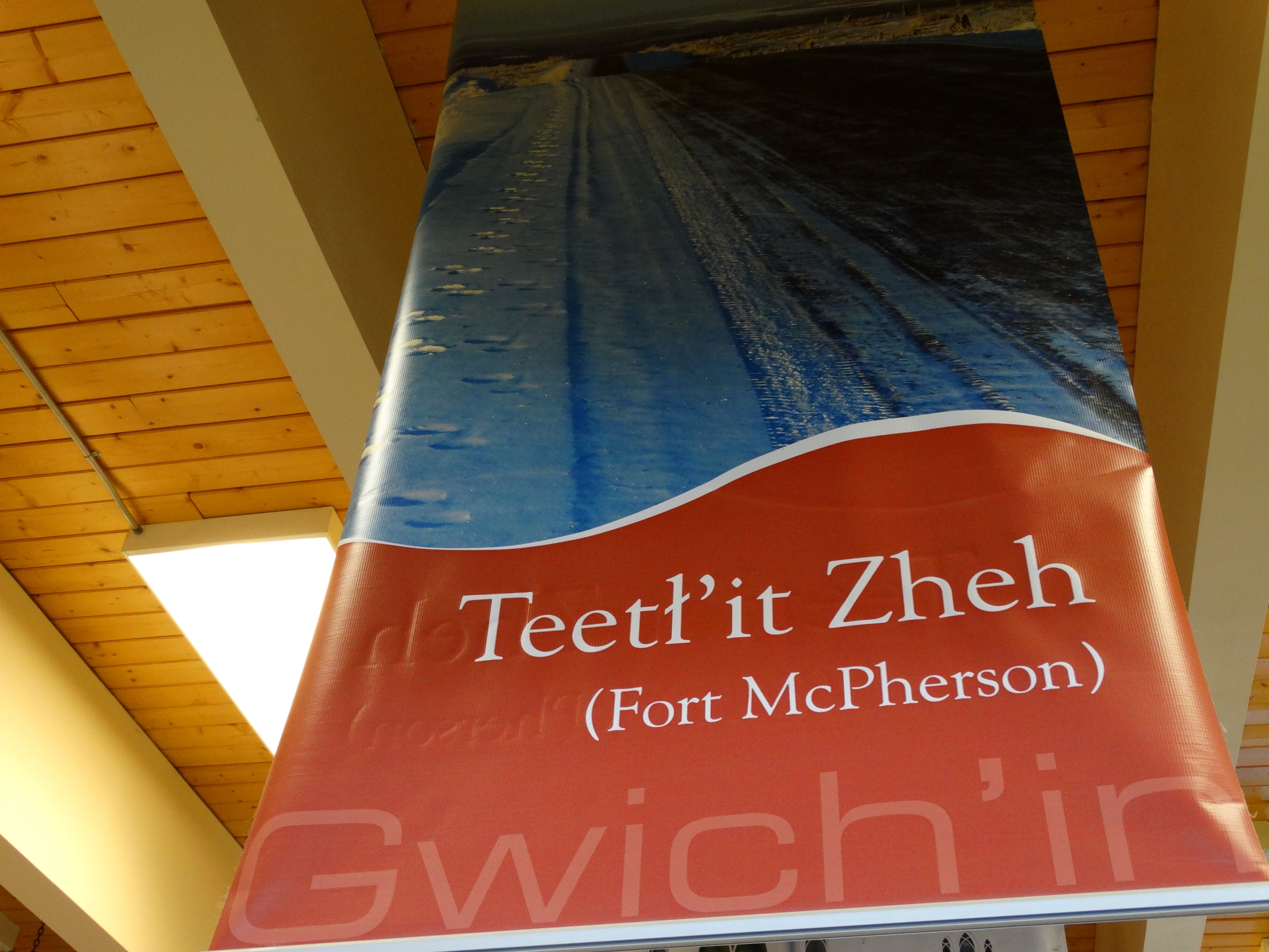 Teetl'it Zheh - Fort McPherson Gwich'in - Sign in Mike Zubko International Airport - Inuvik - Northwest Territories - Canada